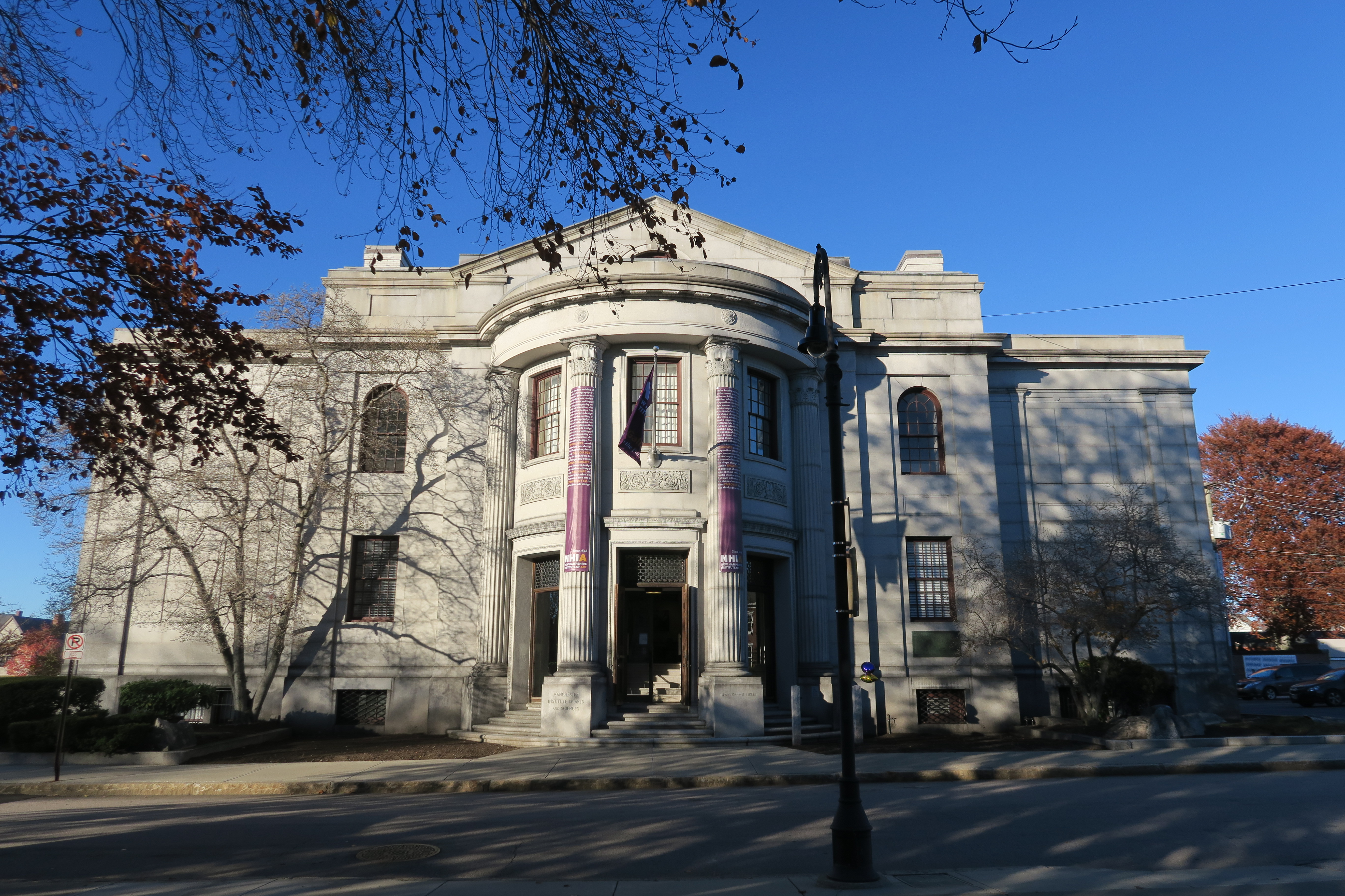 French Building, New Hampshire Institute of Art, Manchester New Hampshire